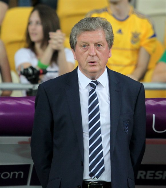 Roy Hodgson at Euro 2012 match against Italy